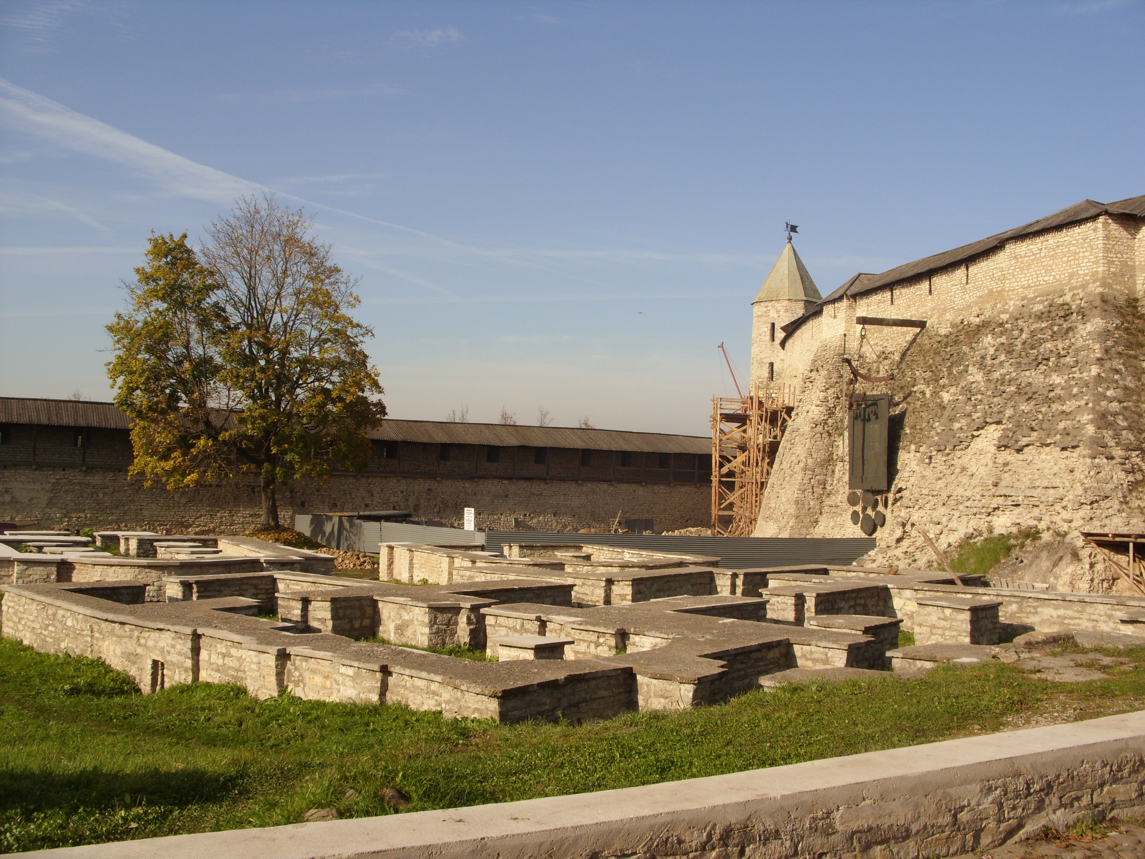 Dovmontov_gorod_Pskov_okt2010-1